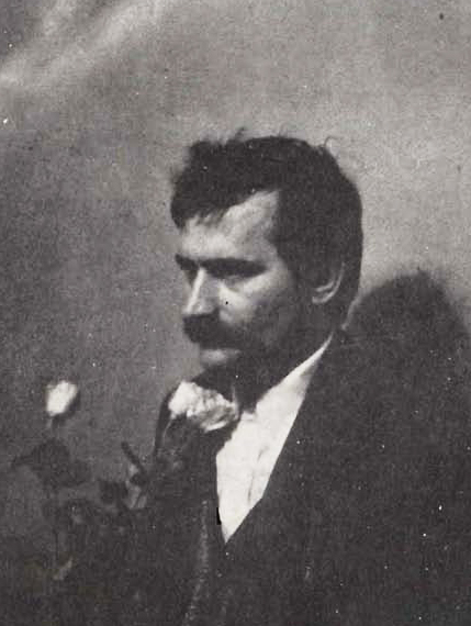 Lech Wałęsa, August 1980